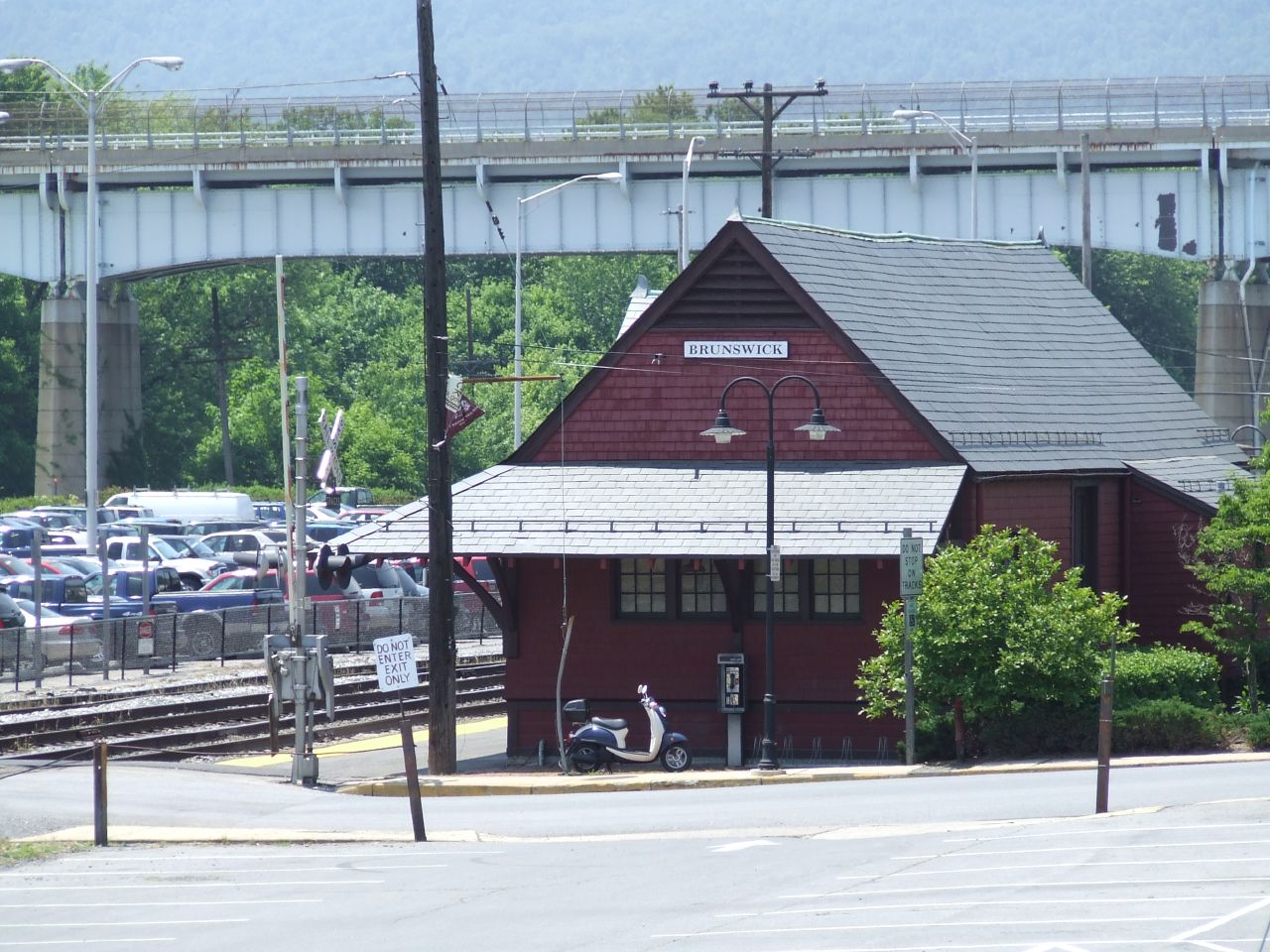 Brunswick. Brunswick MARC station. Brunswick Historic District, Frederick County, Maryland.